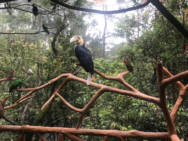 Hornbill at Taman Safari indonesia Bogor bird aviary